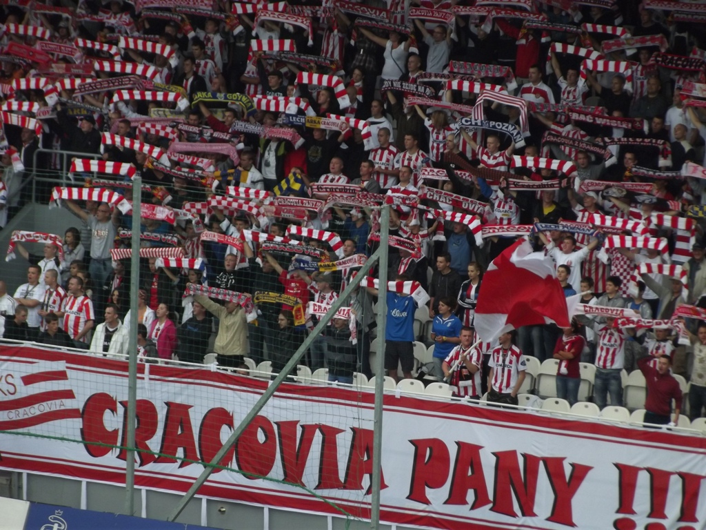 Cracovia fans in Cracovia Stadium.